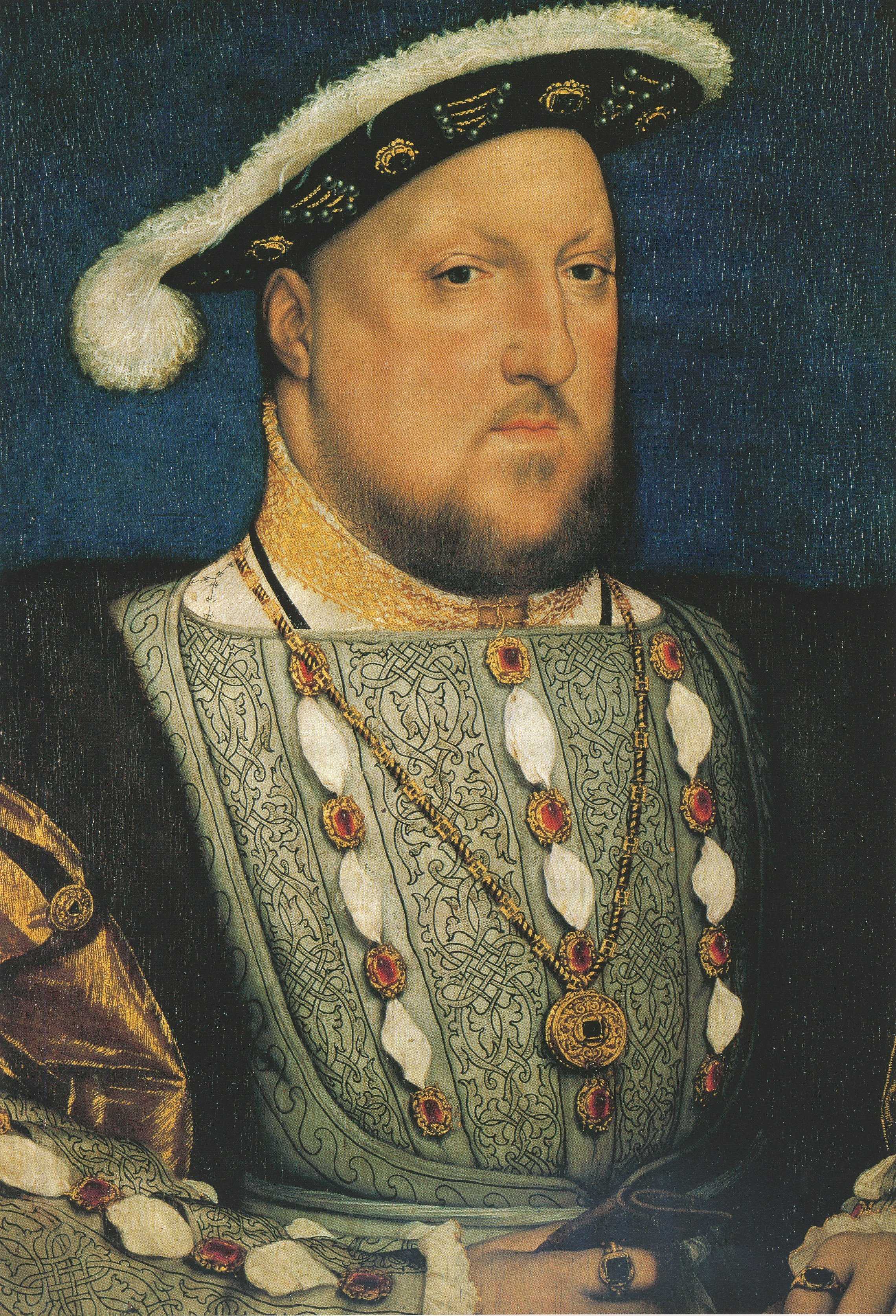 This small-format panel is Holbein's only individual portrait of Henry. It resembles the figure of Henry in the surviving part of Holbein's cartoon drawing for his lost wall-painting at Whitehall Palace (right), and both were probably derived from the same portrait drawing. Other portraits of Henry based on Holbein's types were the work of studios or copyists. The costly ultramarine background is unusual for a panel painting, though it was common in French miniatures, and the portrait, which has a fine miniature-like finish including powdered gold, may have been intended as a gift to the French court. Holbein probably painted the portrait shortly after Anne Boleyn's execution on 19 May 1536, at the time of Henry's marriage to Jane Seymour, whose portrait Holbein also painted. The suggestion that Henry's portrait formed a pair with Jane's is discounted by most scholars on grounds of size and of differences on the reverse. (References: Buck, pp. 119–20; John Rowlands, Holbein: The Paintings of Hans Holbein the Younger, David R. Godine: Boston, 1985, ISBN 0879235780, p. 114; Susan Foister, Holbein in England, London: Tate, 2006, ISBN 1854376454, p. 96.)